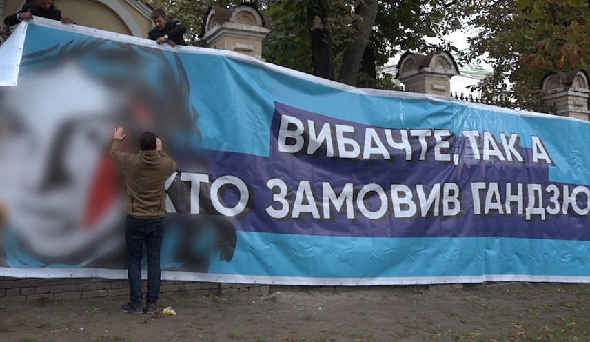 Protesters demand to find organizers of murder of Kateryna Handzyuk (Ukr. Катерина Гандзюк), a Ukrainian politician and anti-corruption activist from the city of Kherson. Text on the poster in Ukrainian: Sorry, so who ordered [to kill] Handzyuk? (Ukr. Вибачте, так а хто замовив Гандзюк?)